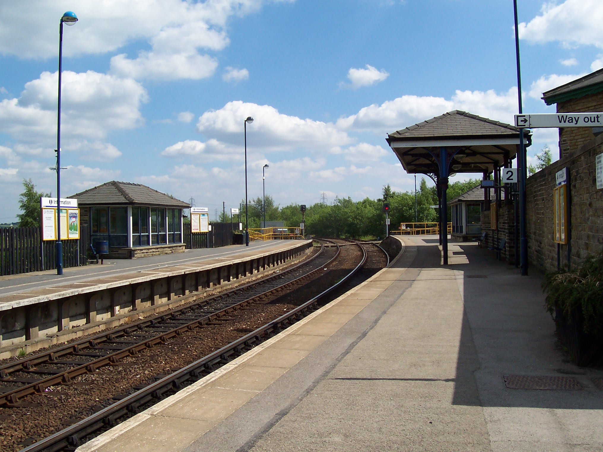 Photograph of Penistone railway station in the village of Penistone taken by myself on 26 June 2005.